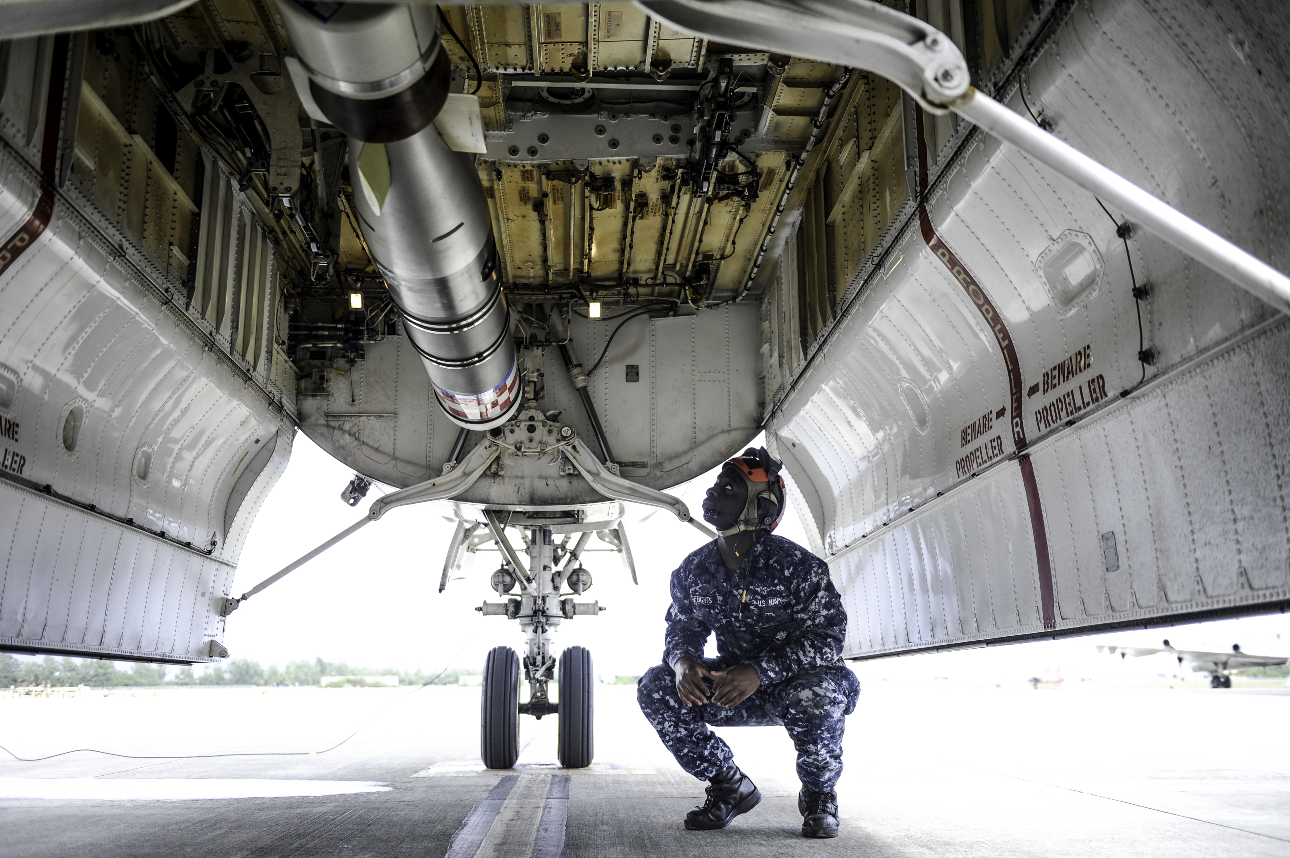 U.S. Navy Aviation Ordnanceman Airman Patrick Speights, assigned to Patrol Squadron (VP) 9 "Golden Eagles", checks the release mechanism of a Mark 54 recoverable exercise torpedo loaded onto a Lockheed P-3C Orion maritime patrol aircraft for a torpedo exercise as part of the squadron's advanced readiness program. VP-9 had been notified that they had earned the 2014 Commander Naval Air Forces, Pacific Battle "E" award, the Navy's top performance award presented to the commands that achieve the highest standards of performance readiness and efficiency.